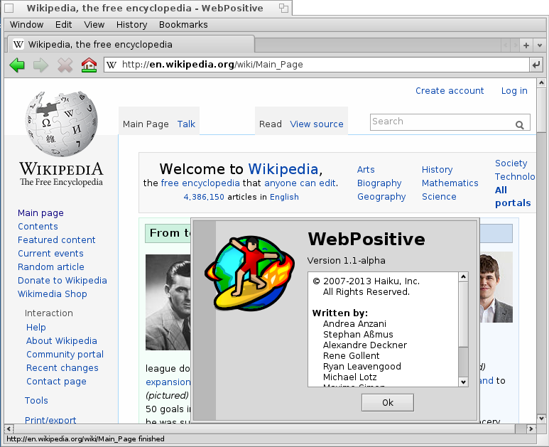 Screenshot of WebPositive 1.1-alpha